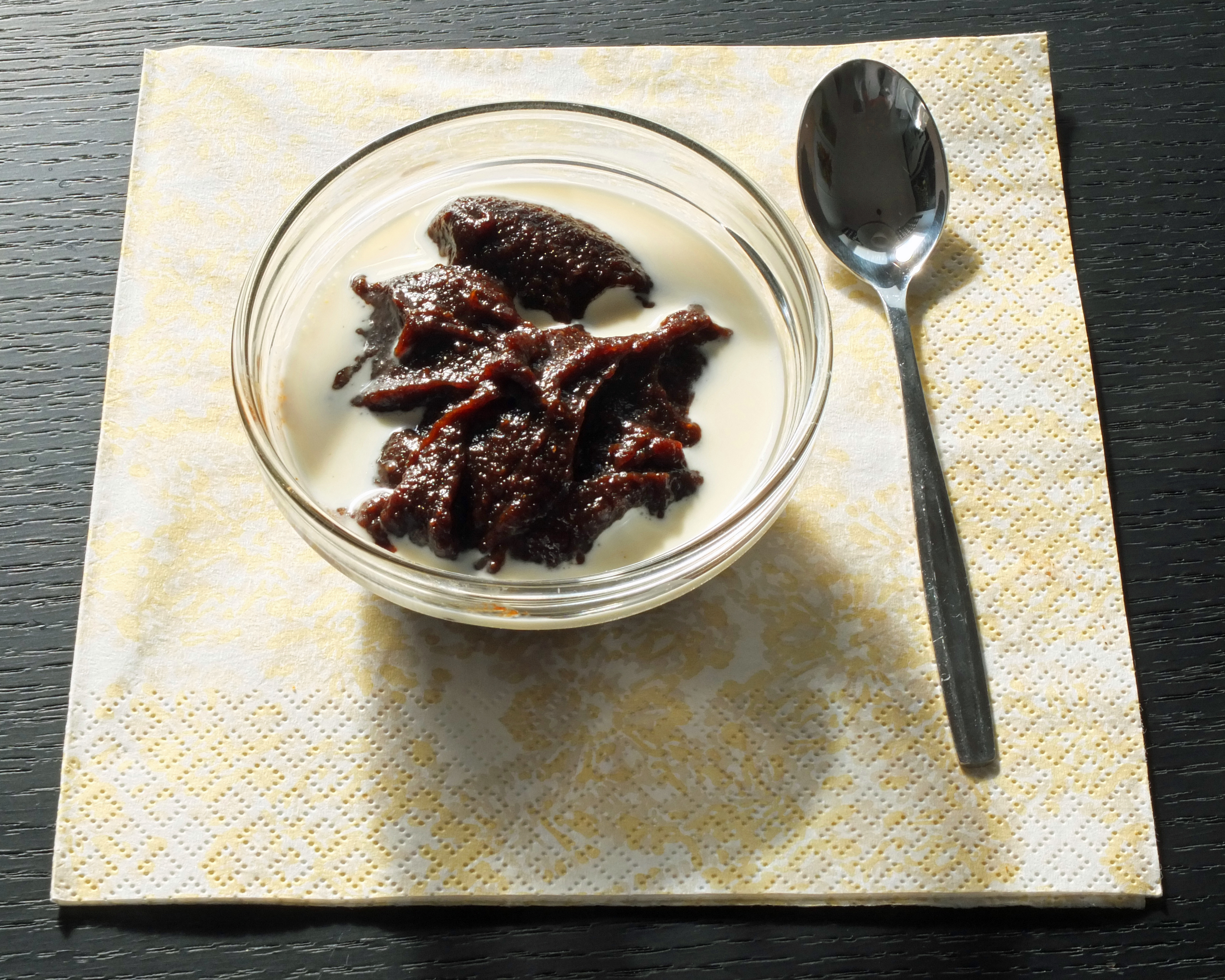 Portion of Finnish Easter dish mämmi, served with cream.